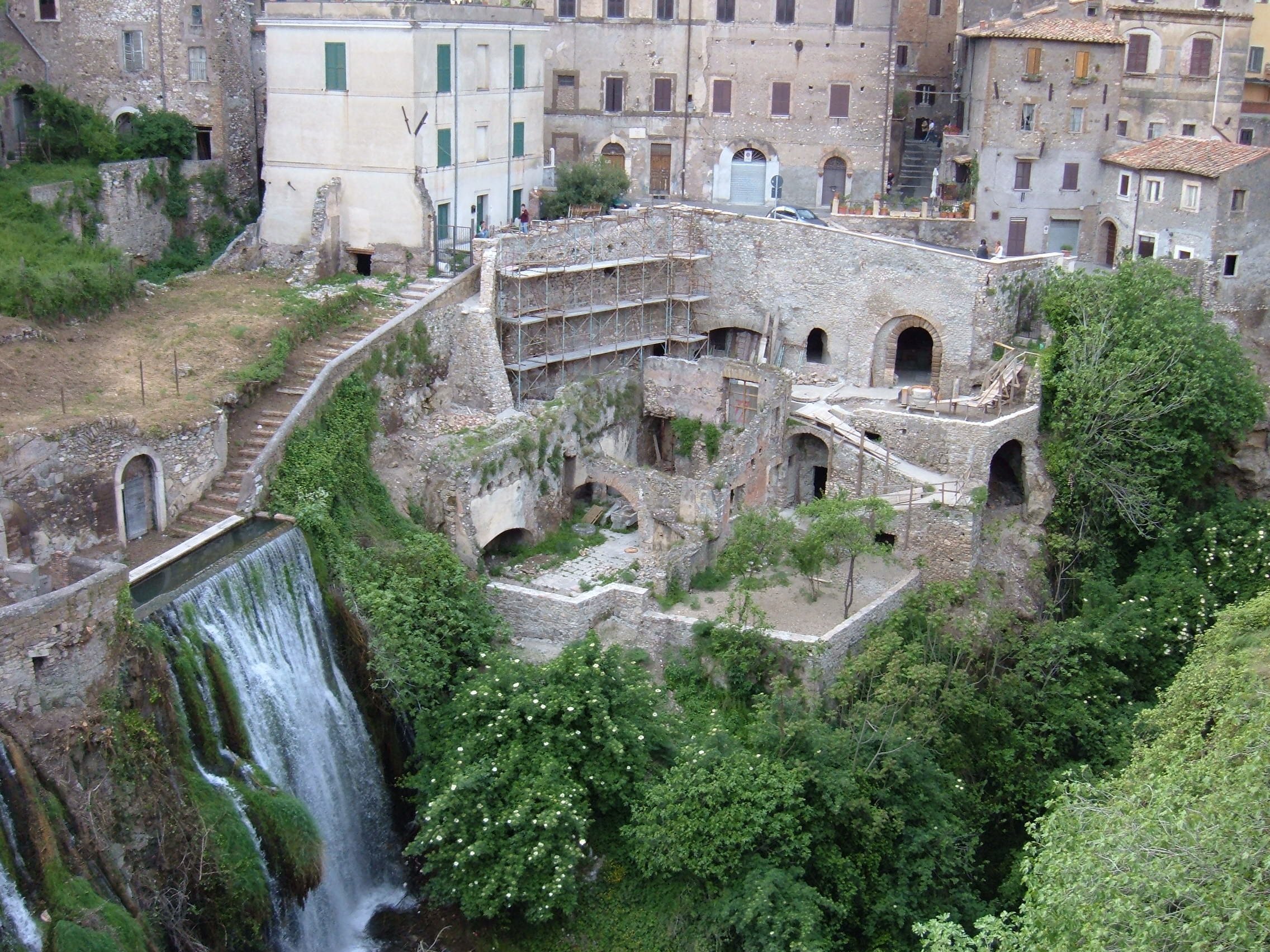 The villa of Manlio Vopisco, Tivoli, Italia. May 2005. (foto: kleuske)